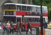 A Lothian Buses bus, a Volvo Olympian double-decker with Alexander Royale bodywork, in the Red and White version of the traditional old Madder and White livery. This was used for buses on the long cross city route 15, which this bus is pictured operating, exiting the west end of Princes Street.